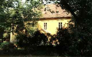 Széchényi Mansion in Kőröshegy